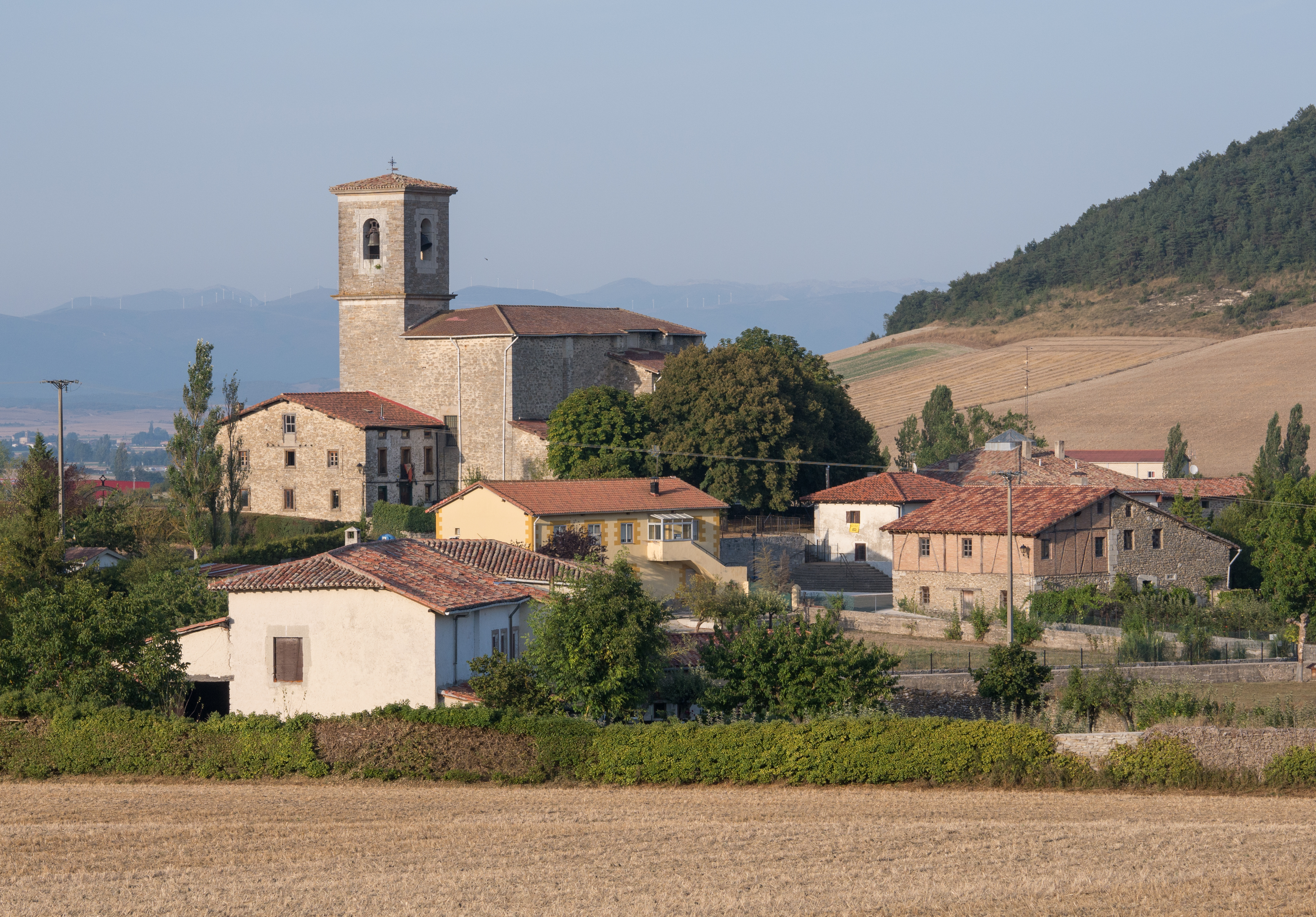 View over Mendiola. Vitoria-Gasteiz, Basque Country, Spain